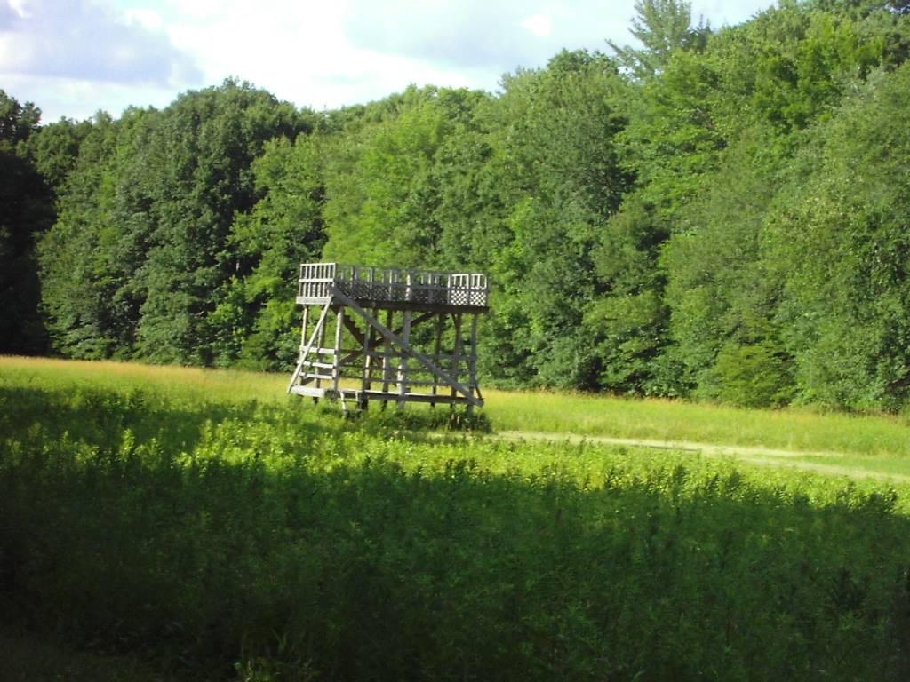 Photo of a summer camp, Camp Rising Sun, New York, Red Hook